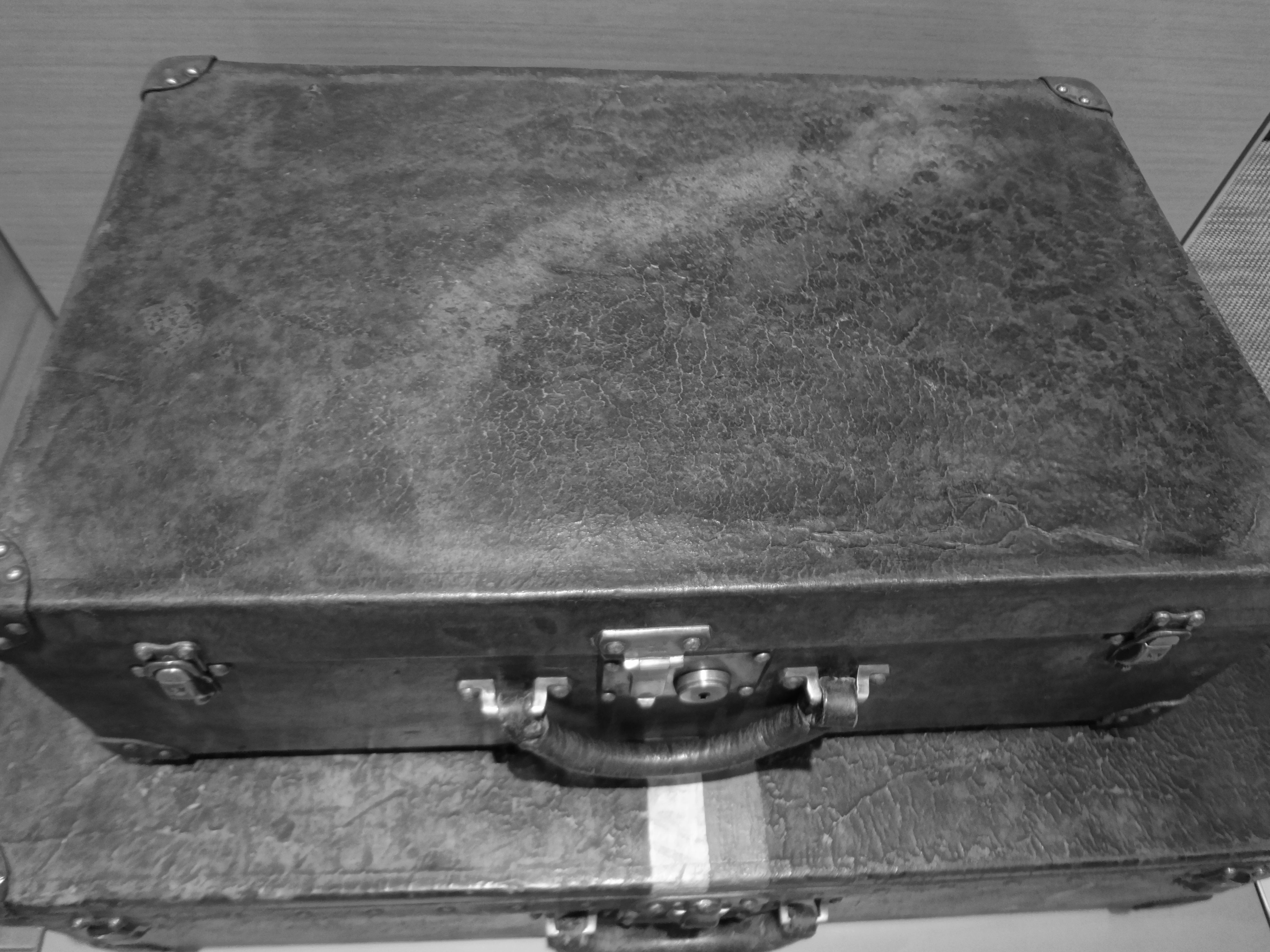 Antique Louis Vuitton Trianon Luggage, Madrid, Spain, 2016